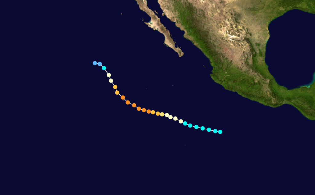 Hurricane Ramon (1987) track. Uses the color scheme from the Saffir-Simpson Hurricane Scale.